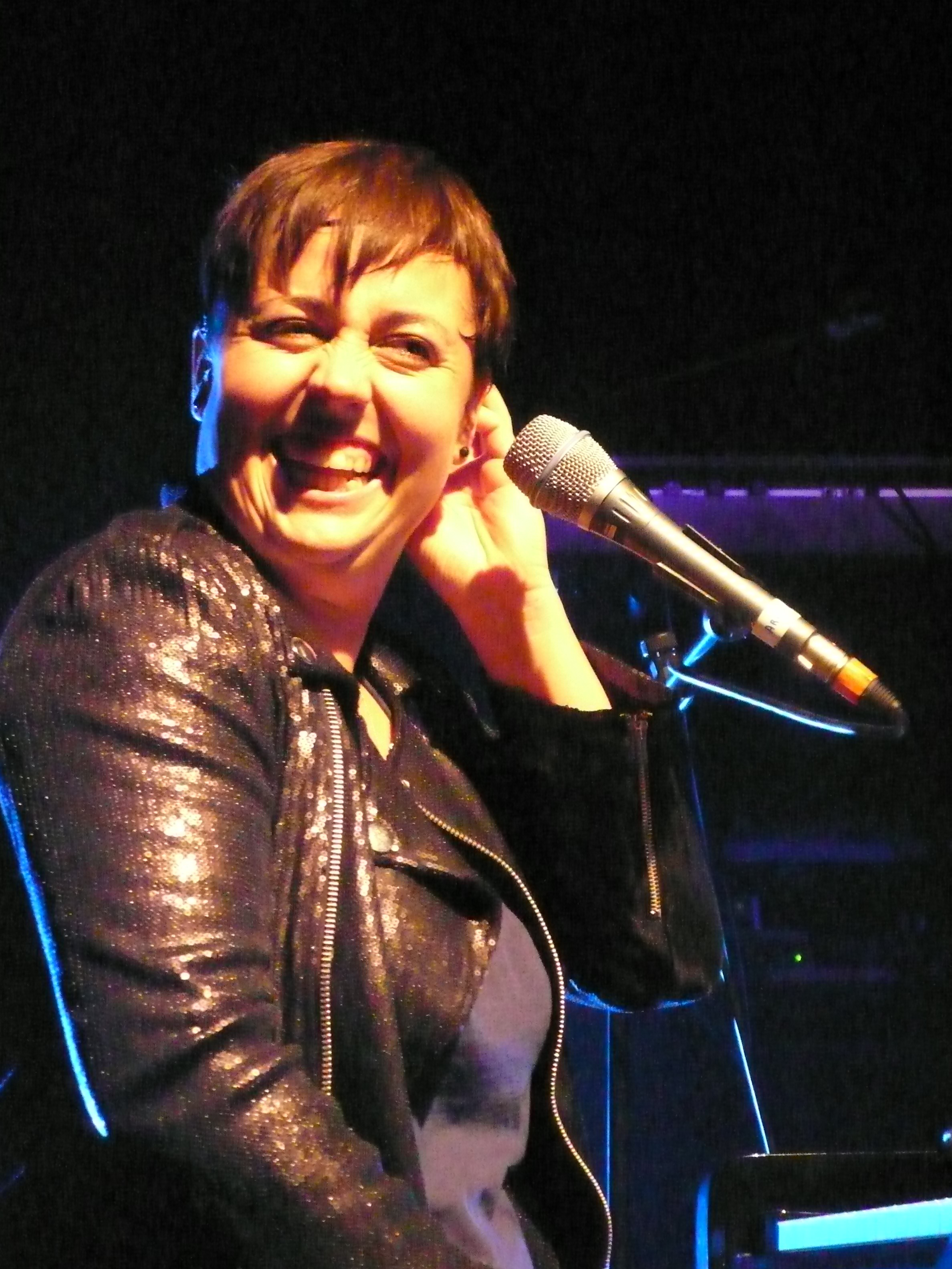 Ariane Moffatt : show at Annemasse